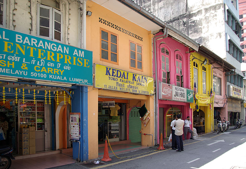 Kuala Lumpur, Little India, Jl. Melayu